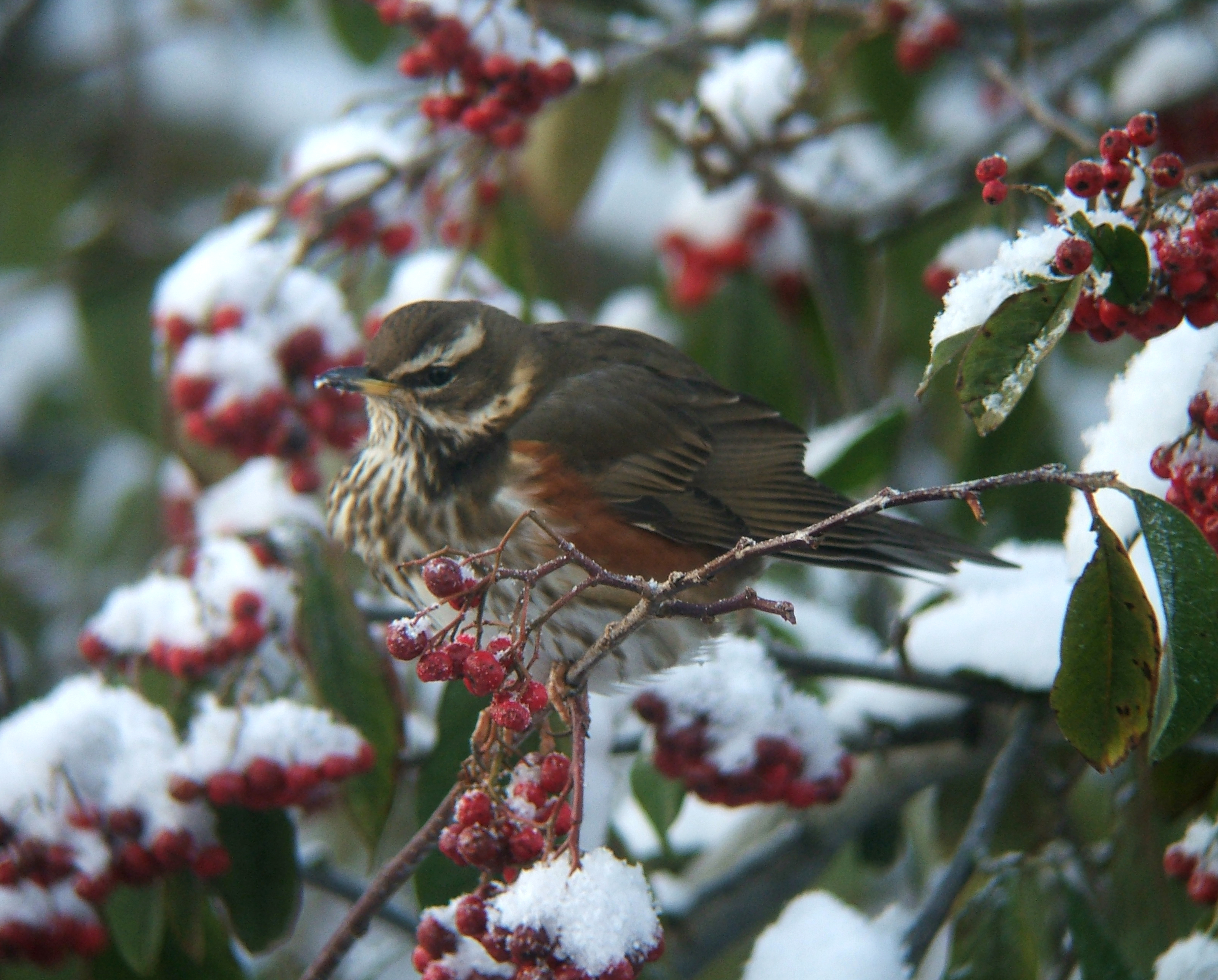 Turdus iliacus feeding on Cotoneaster frigidus berries in snow. Jesmond Dene, Northumberland, UK.